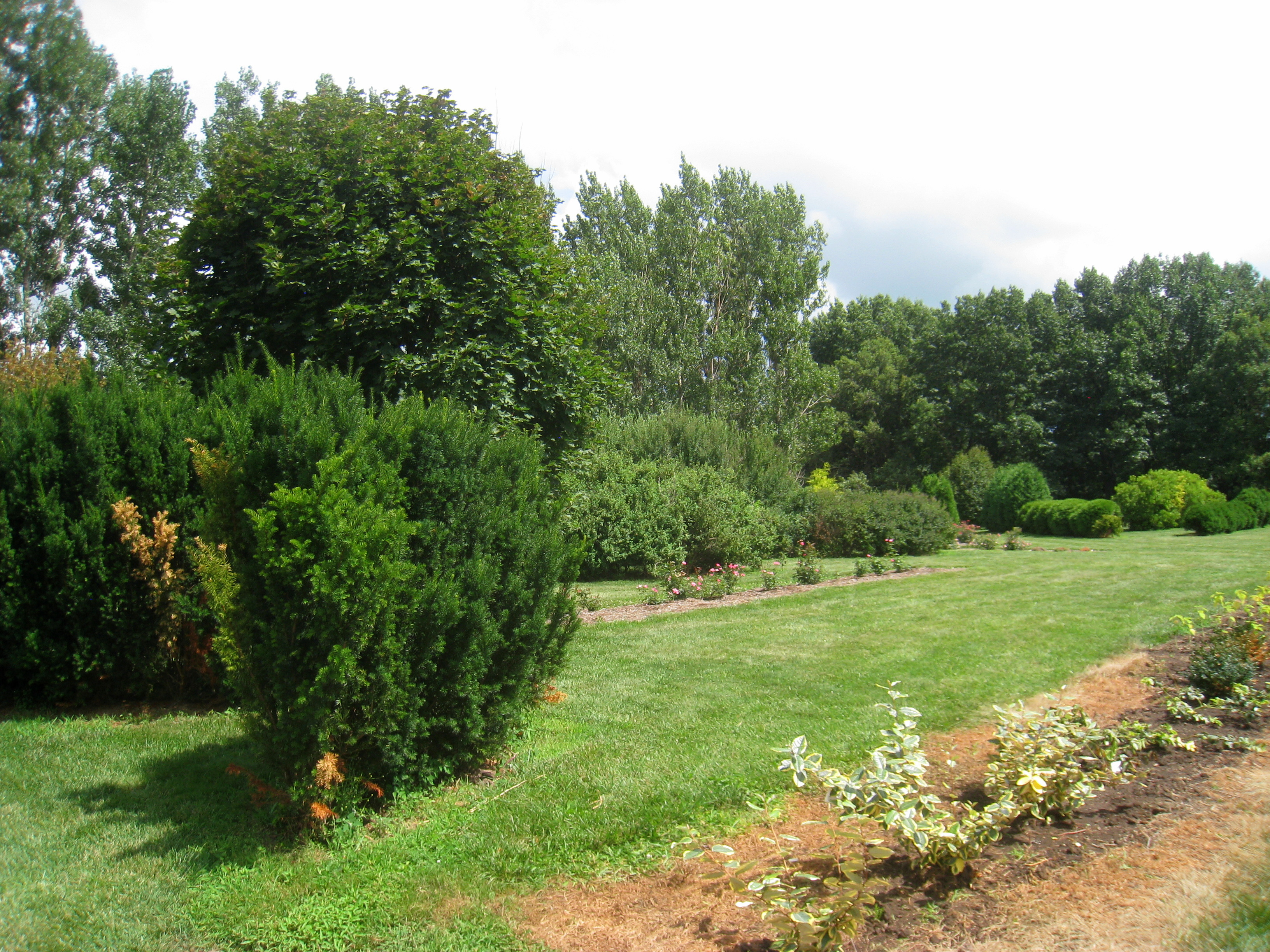 University of Illinois Arboretum, University of Illinois at Urbana-Champaign, Urbana, Illinois, USA.